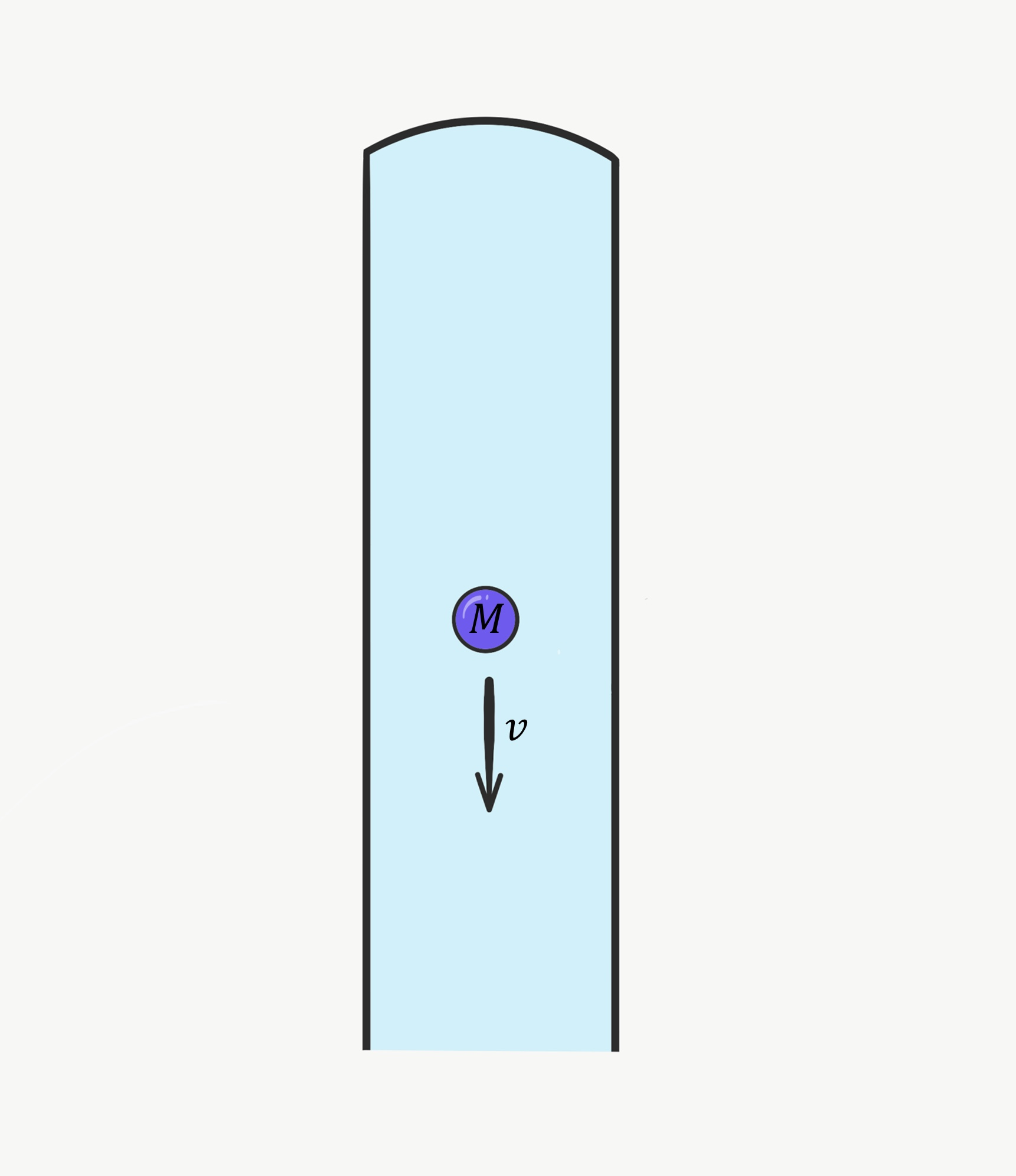 נוזל על שנמצא בצינור, בו עובר כדור בעל מסה M עם מהירות v. אם המהירות גדולה מהמהירות הקריטית, הכדור יצור עירורים באטומי הנוזל. אחרת, ינוע ללא התנגדות (אפס צמיגות).